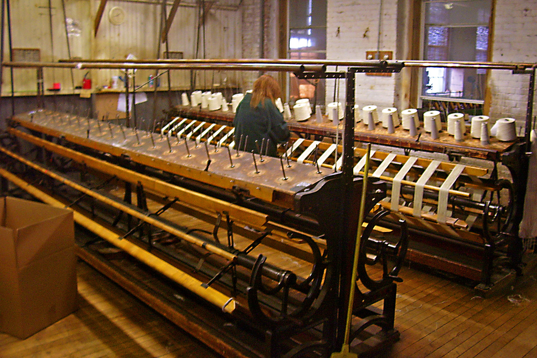 Photographed by Daniel Case 2006-12-07 with the permission of the Steinberger family, who own the mill.